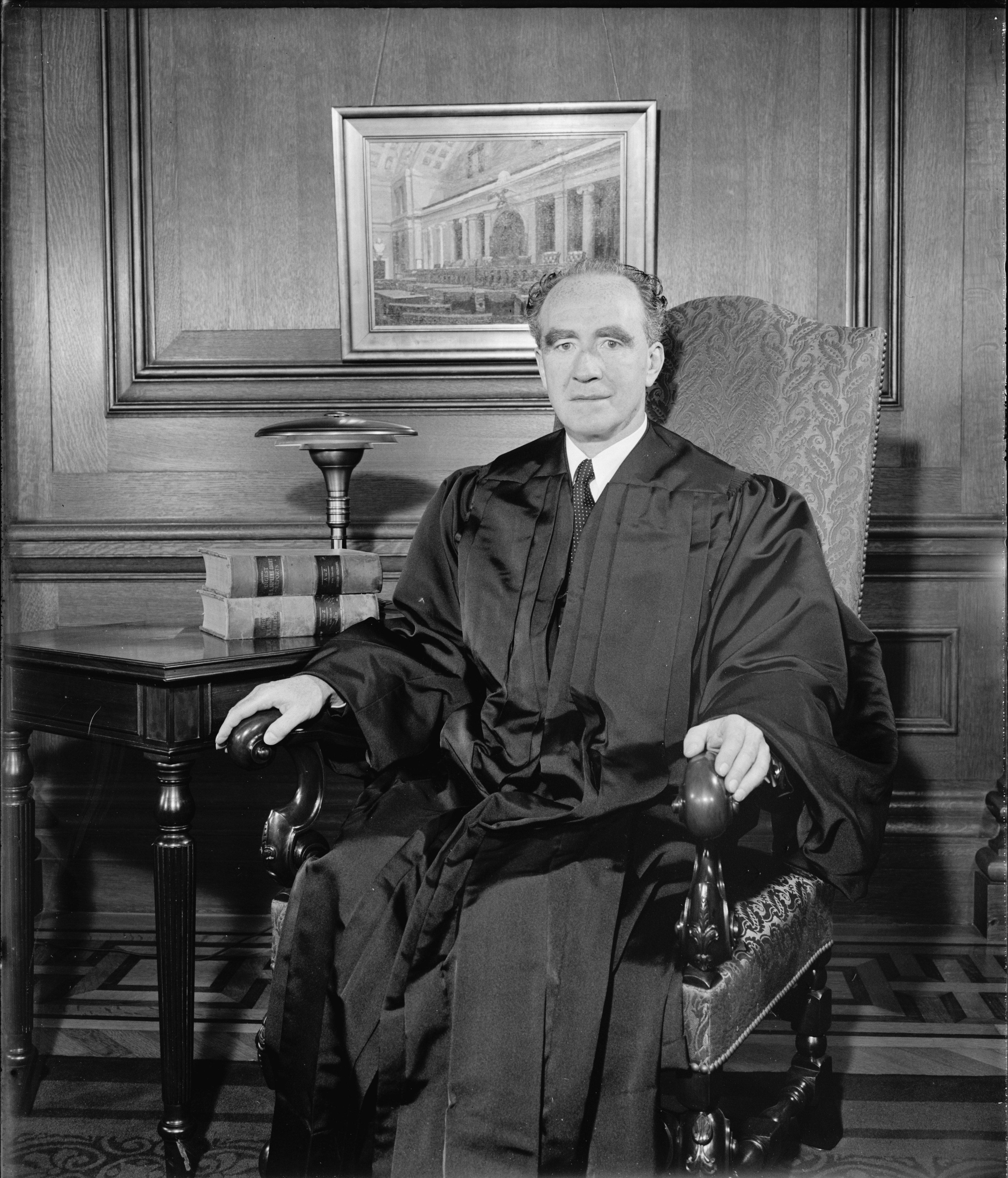 Newest member of U.S. Supreme Court, Frank Murphy, former Atty. General, Feb. 1940